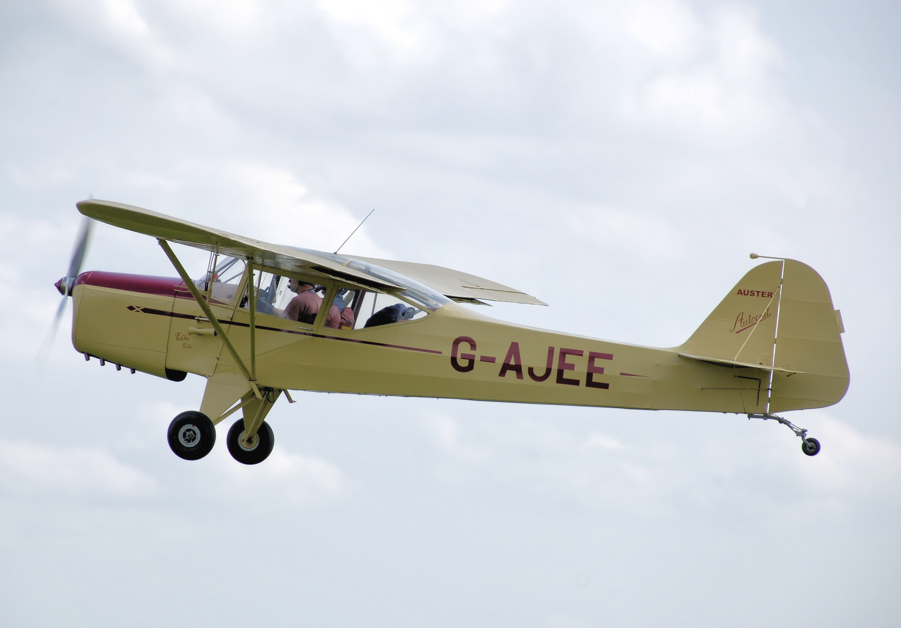 1946-built Auster 5J1 Autocrat (G-AJEE) takes off at the Great Vintage Flying Weekend, Kemble Airport, Gloucestershire, England.